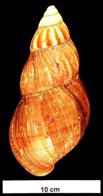 Photo of the abapertural view of the shell of Achatina fulica. Locality: Papua New Guinea, Keravat, New Britain, Jun 1951, Dun.